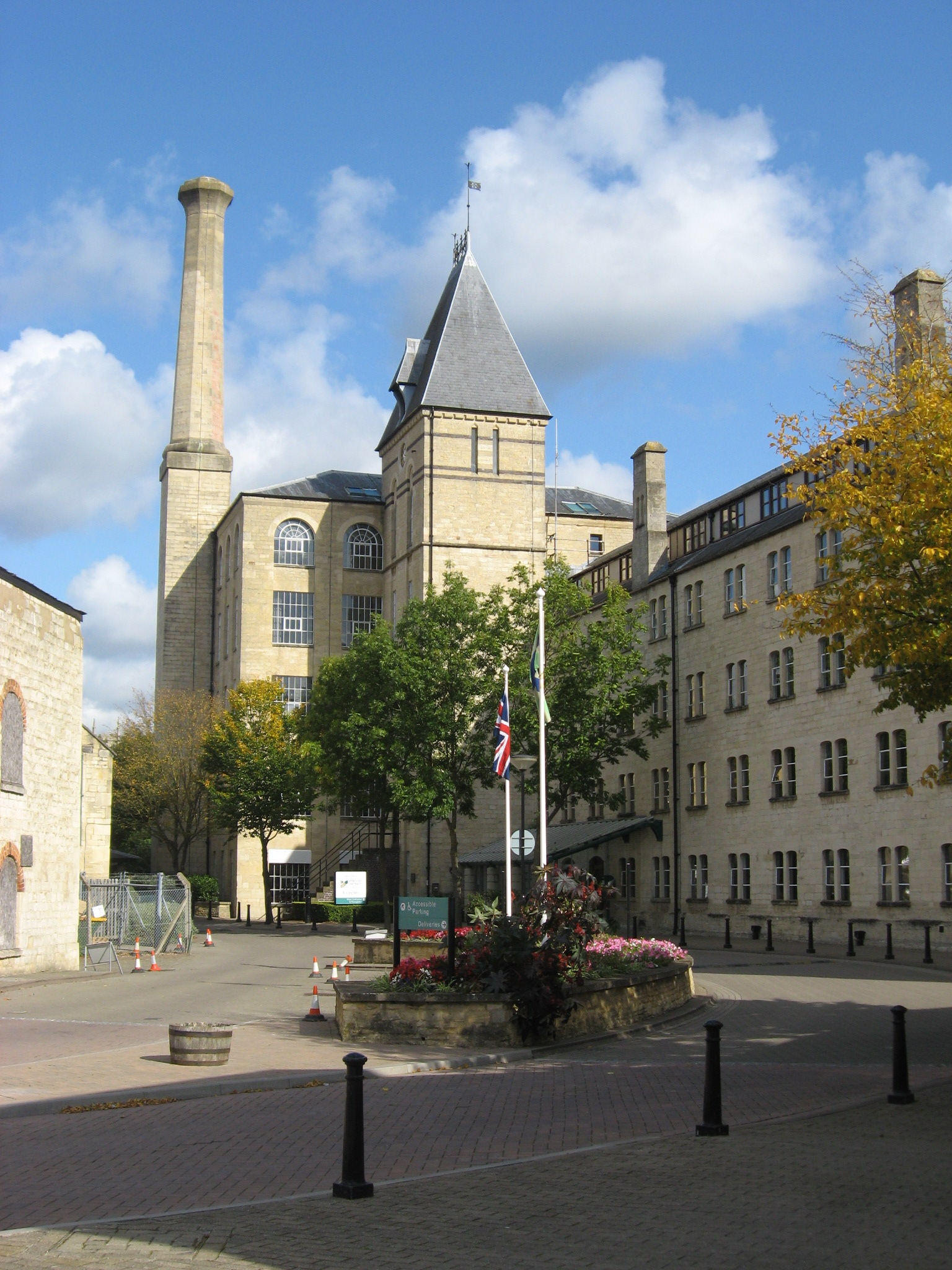 Ebley mill, Stroud. Headquarters of Stroud District Council.